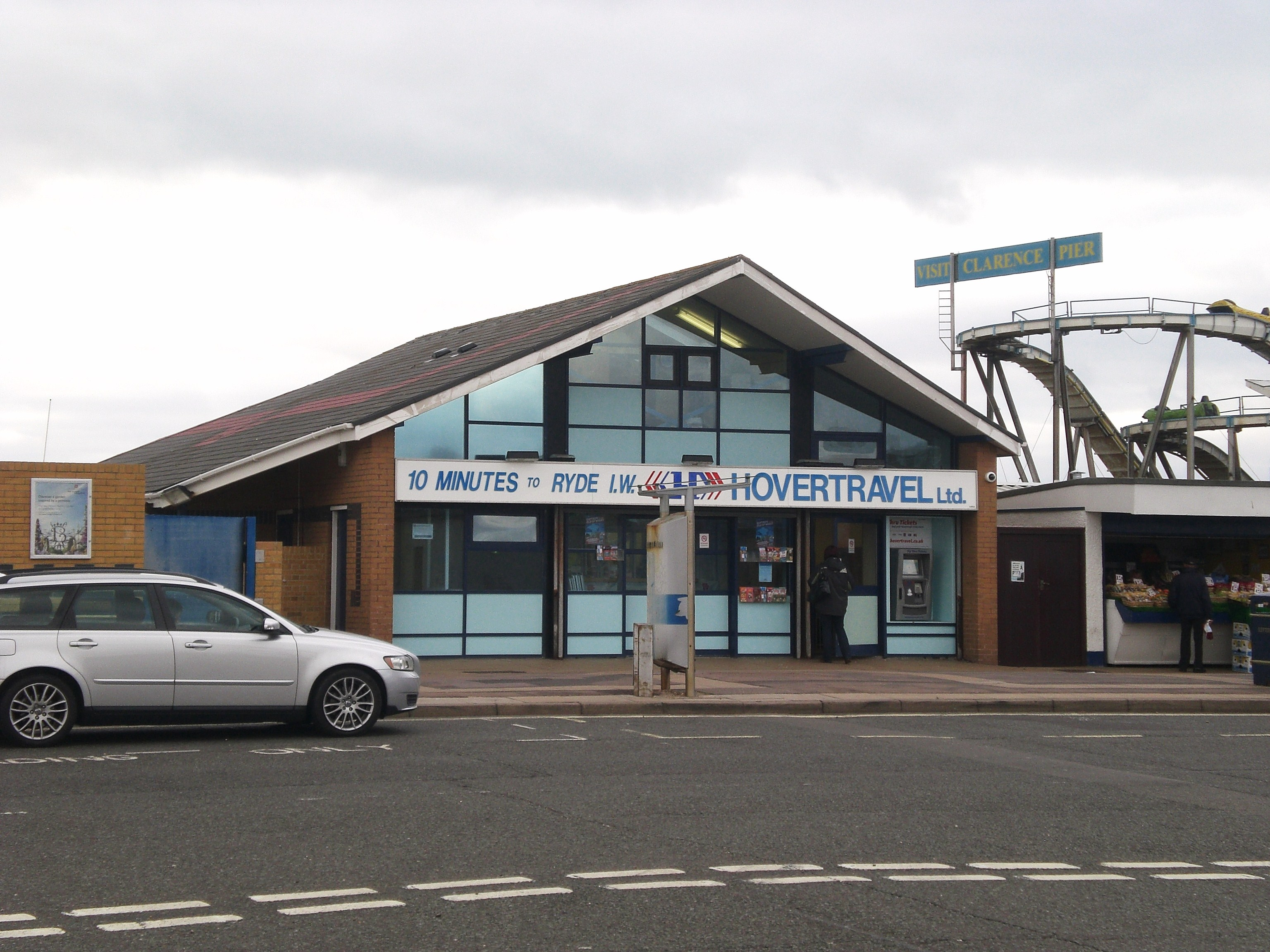 Southsea Hoverport, where Hovertravel run hovercraft services to Ryde on the Isle of Wight.